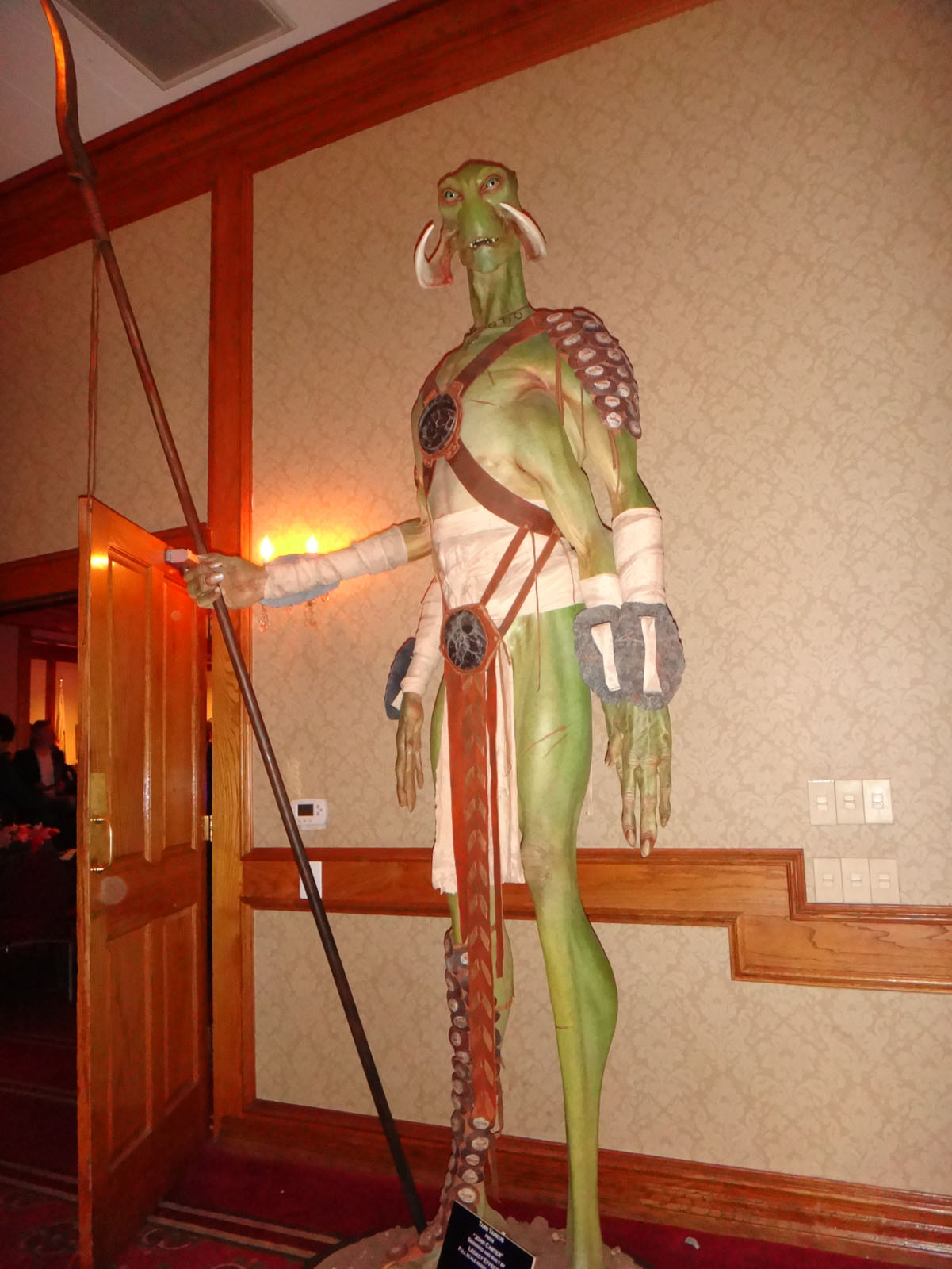 38th Annual Saturn Awards - Tars Tarkas from John Carter